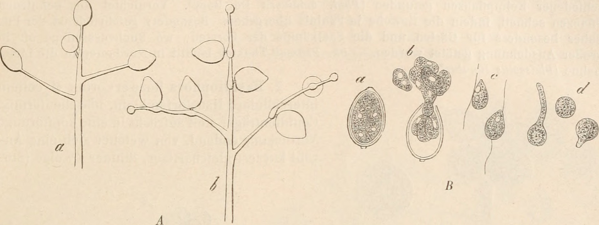 Phytophthora infestans Sporangium and zoospores